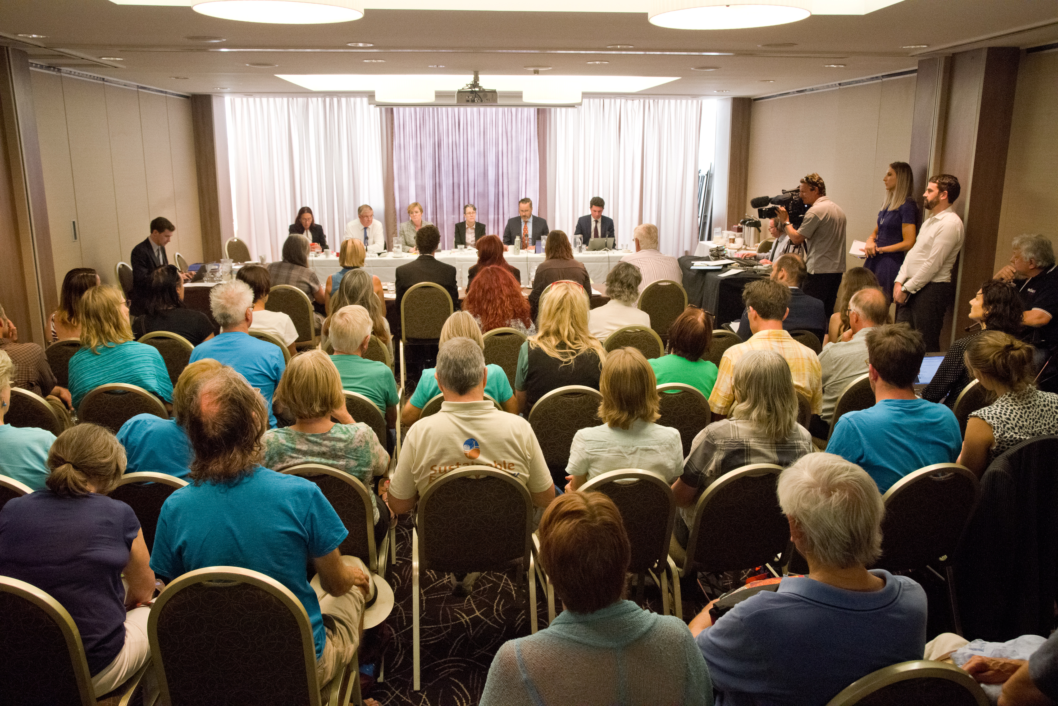 Senate Inquiry into the Roe 8 non compliance of enviromental conditions